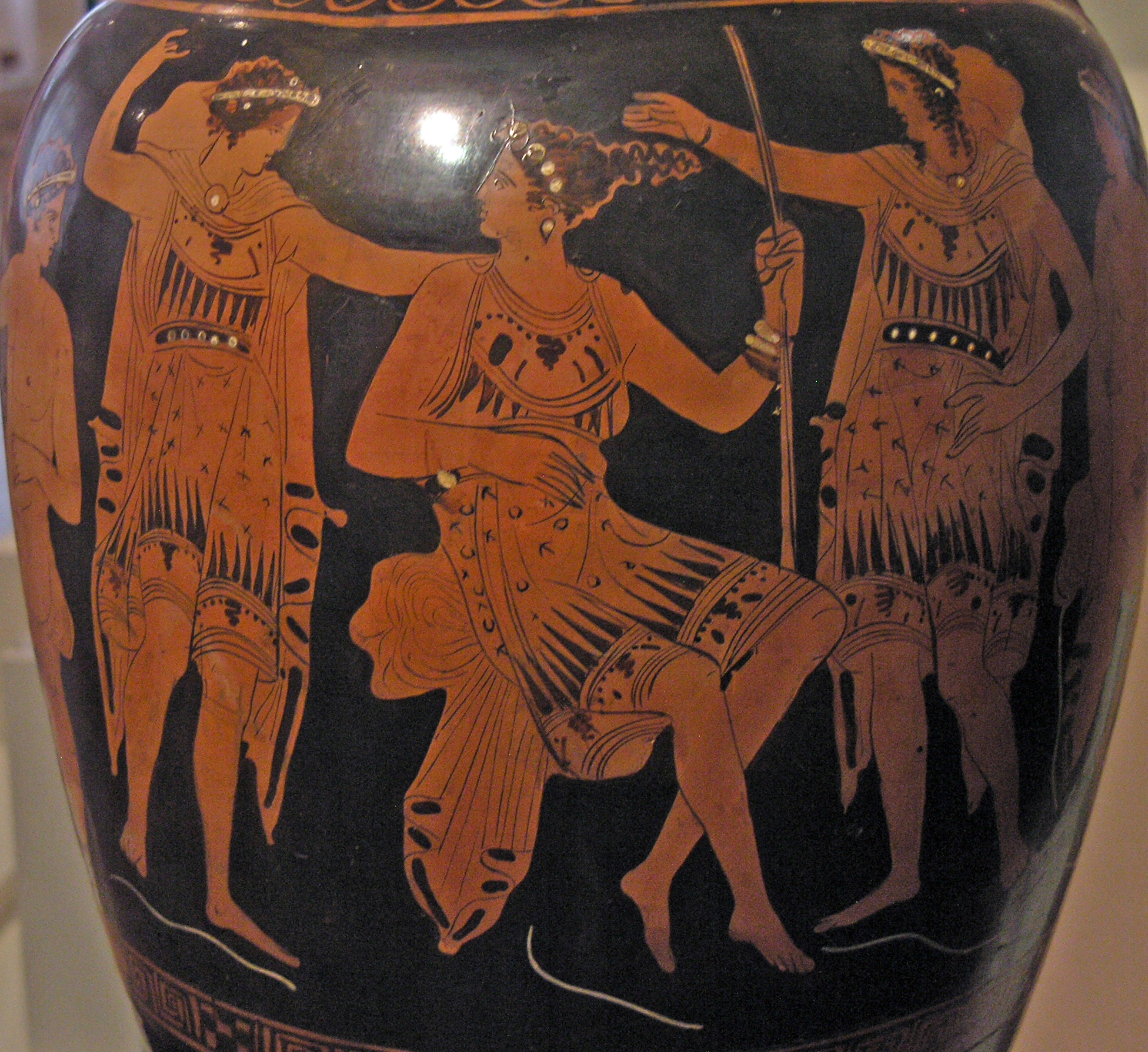 Calydonian Boar Hunt: Atalanta sits holding a spear, surrounded by Meleager, possibly Tydeus, and other heroes. Attic red-figure amphora, 400-375 BC. Unknown provenance.